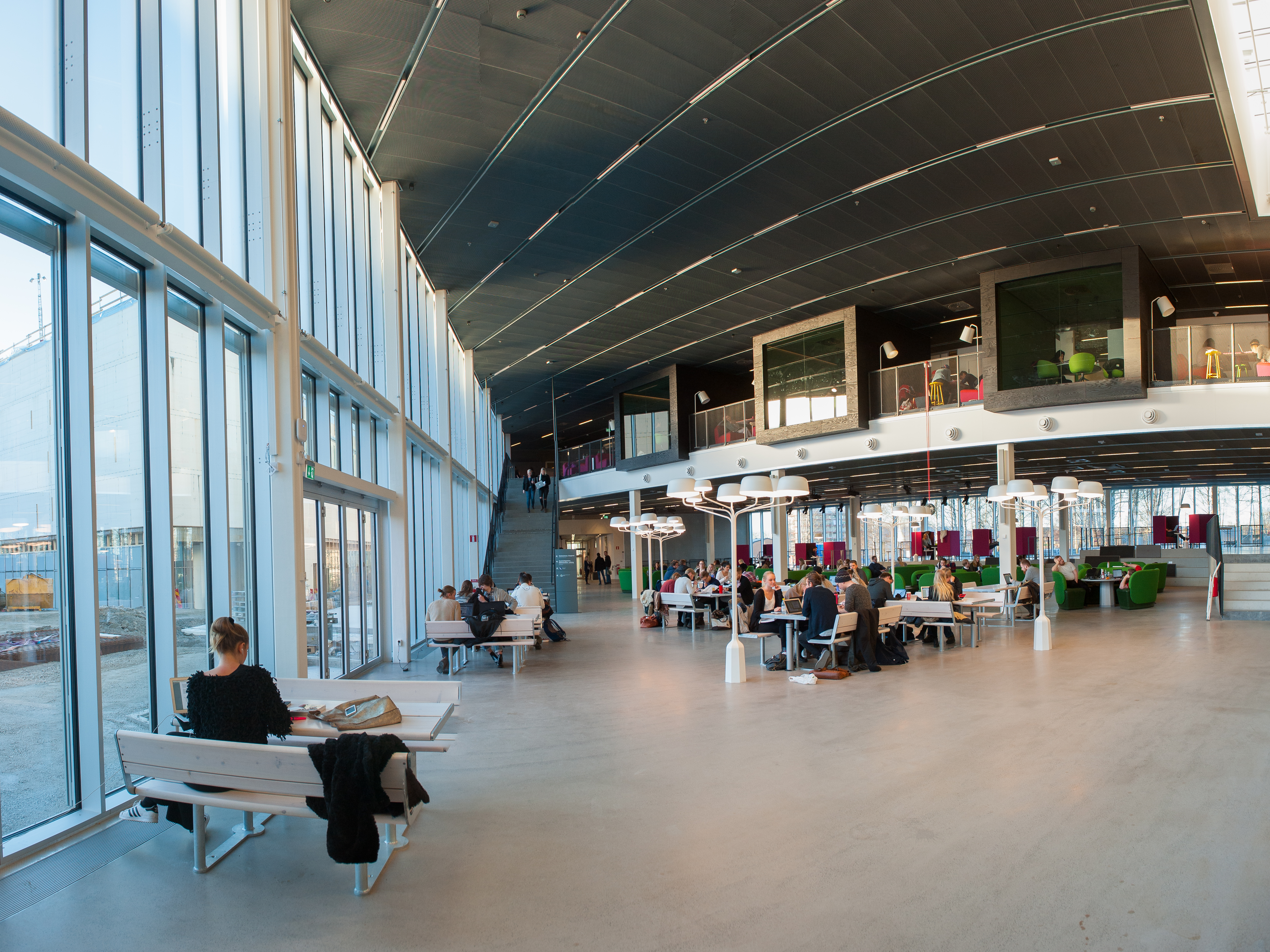 Nova House, inside. Örebro University.